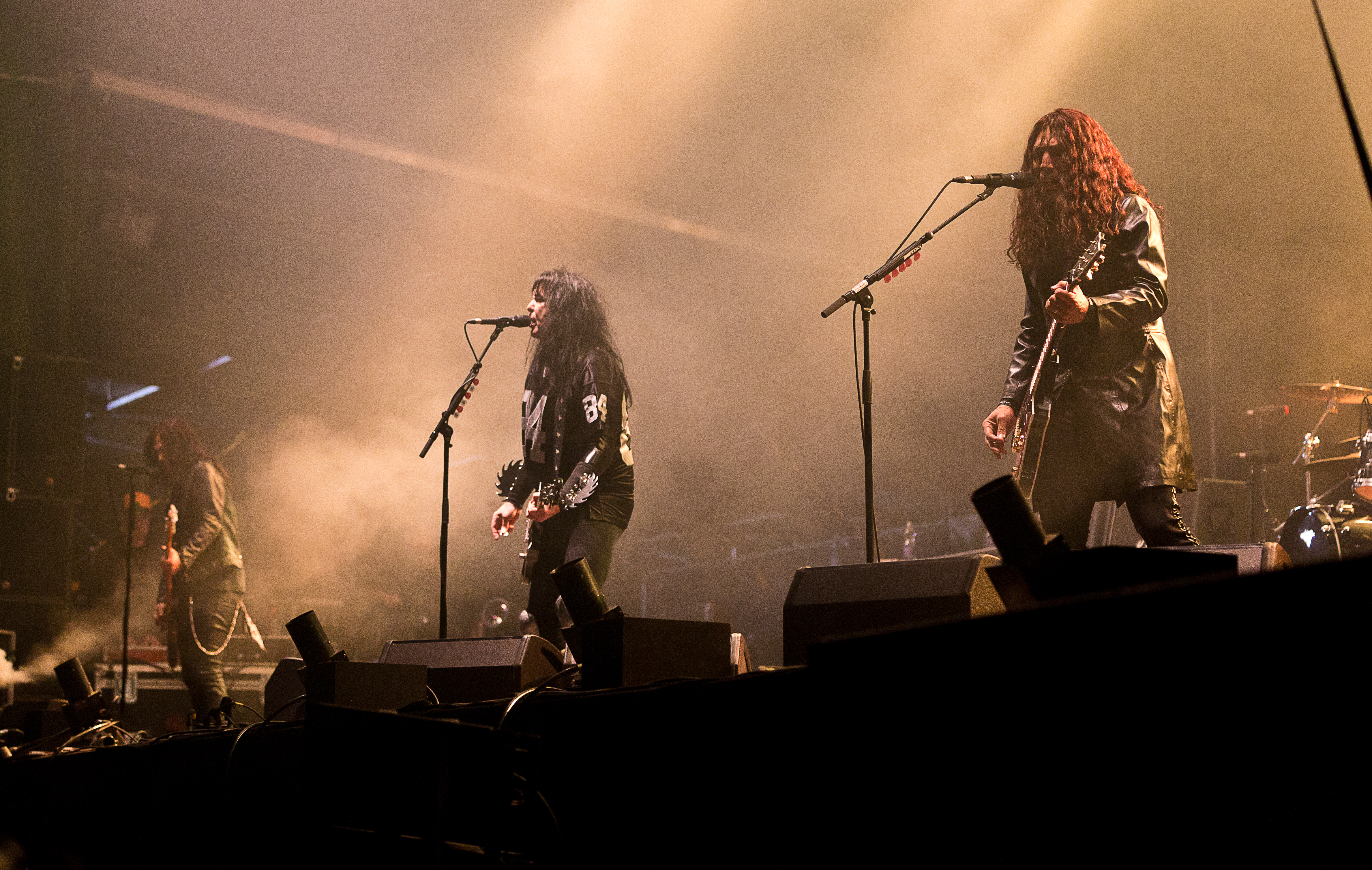 The American heavy metal band W.A.S.P. at the Rockharz Open Air 2015 in Ballenstedt/Germany.